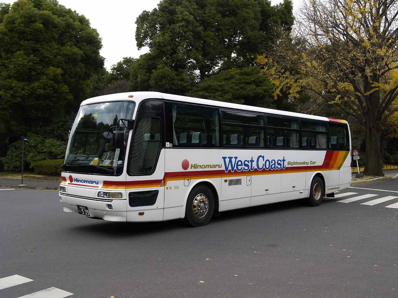 Fleet of Hinomaru JIdosha Kogyo, standard sightseeing bus "West Coast". Model: Mitsubishi Fuso Aero Bus KC-MS829P License plate: KNS200 KA-539 Place: Kitanomaru Park, Chiyoda ward, Tokyo Japan